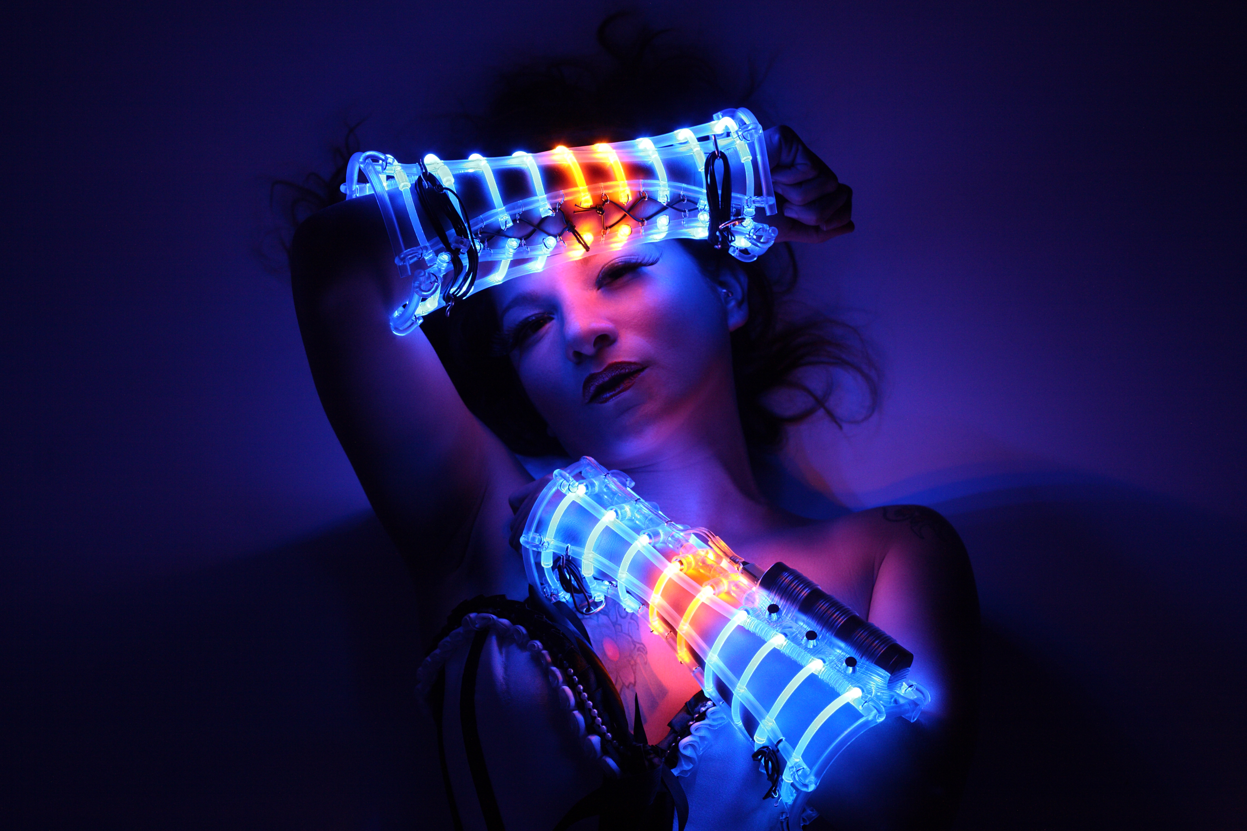 LED costume for professional stage performers, created by the artist Beo Beyond.